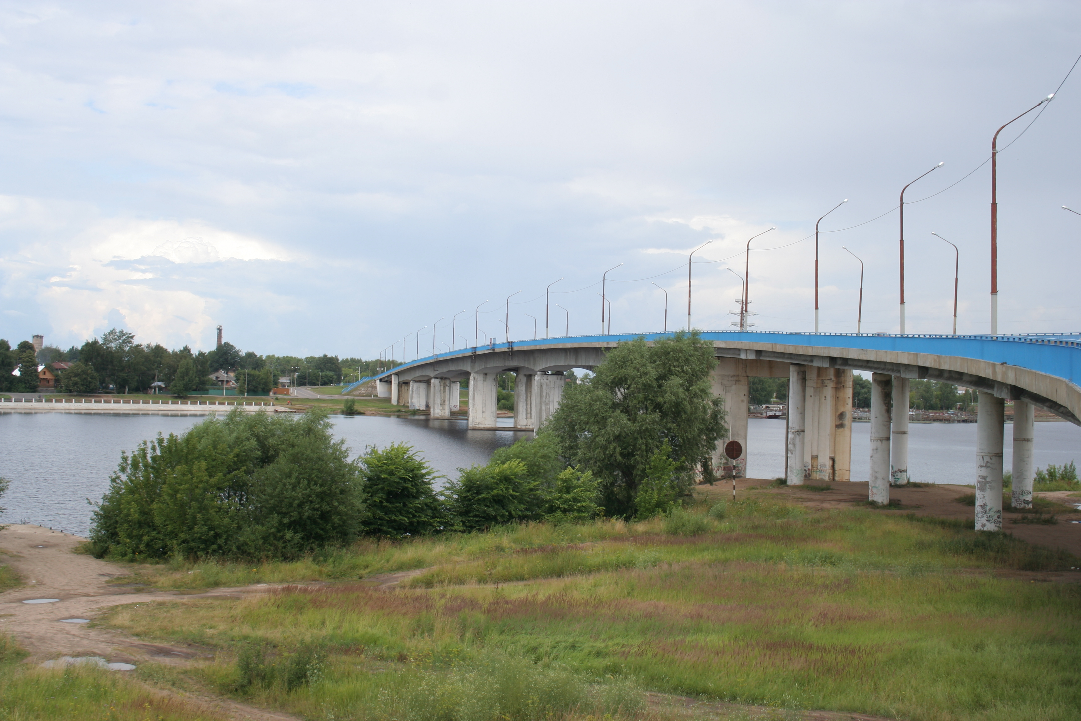 Bridge over the Kostroma river in Kostroma, Russia.